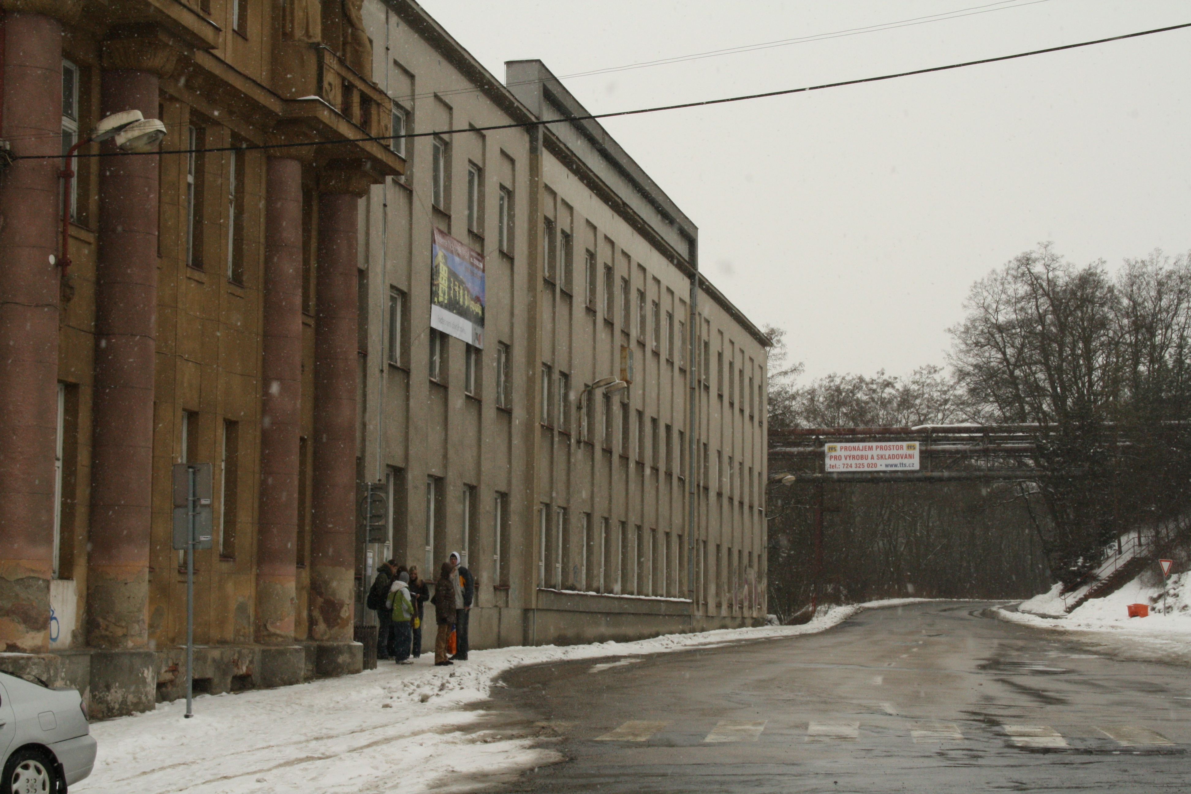 BOPO factory offices in Třebíč.jpg